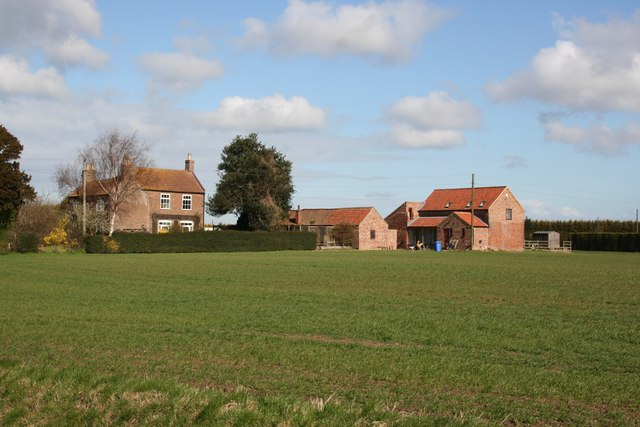 Hilldyke Farm at Hilldyke